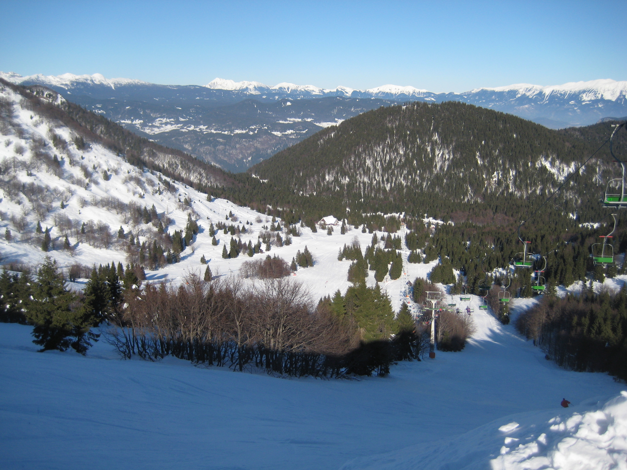 Soriška planina ski grounds, Slovenia